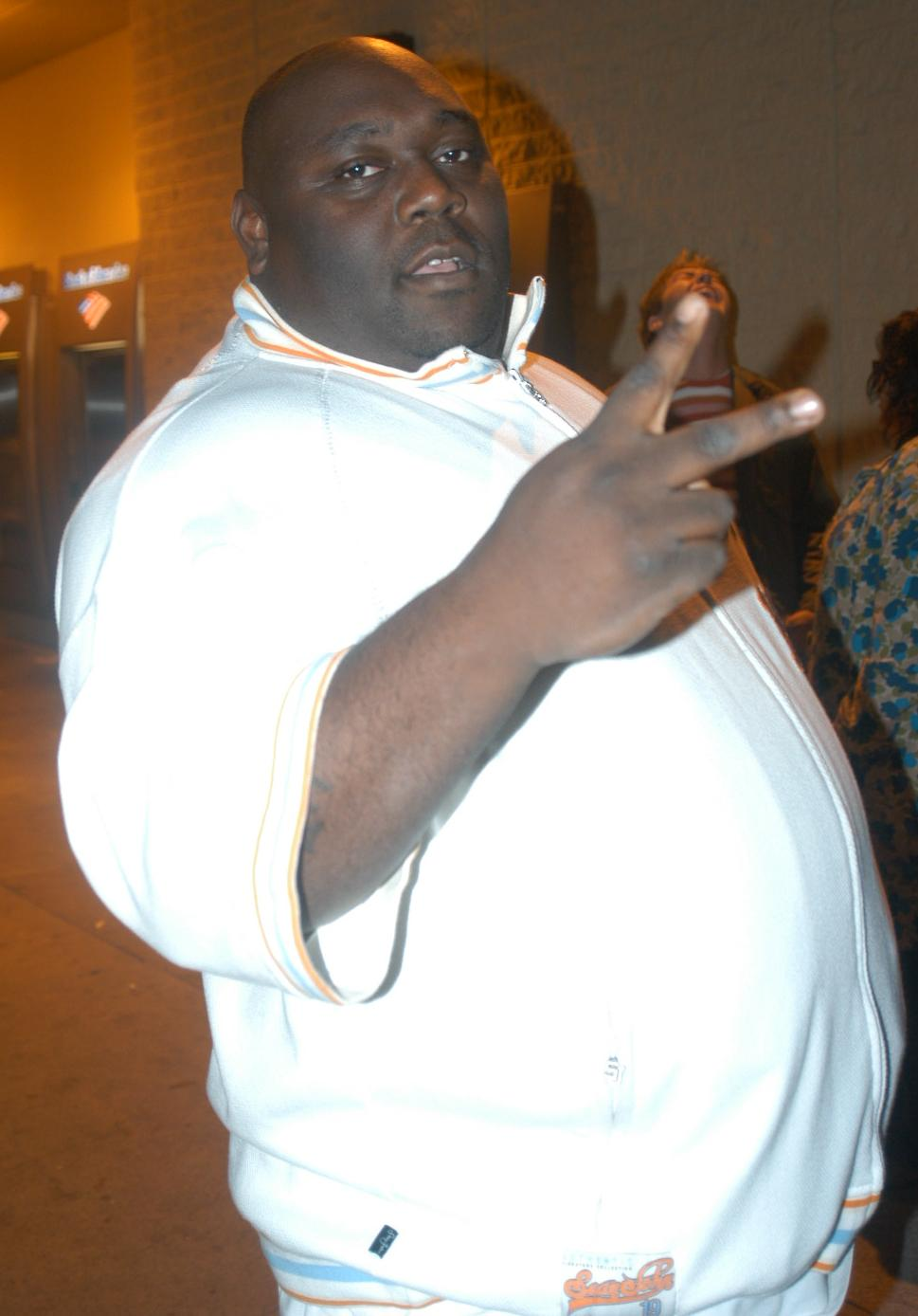 Faizon Love at a Porn Star Karaoke event on December 6, 2005